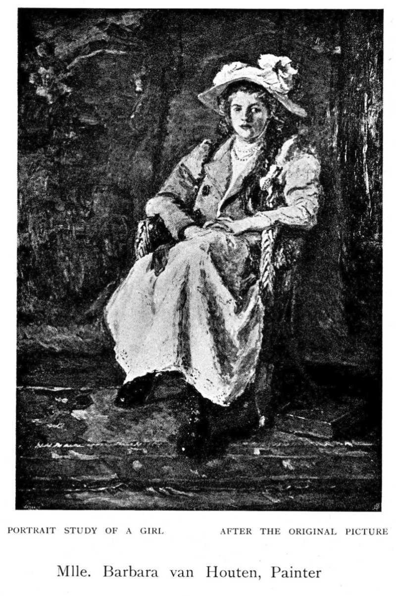 1905 print after page of Women painters of the world, from the time of Caterina Vigri, 1413-1463, to Rosa Bonheur and the present day, by Walter Shaw Sparrow, The Art and Life Library, Hodder & Stoughton, 27 Paternoster Row, London